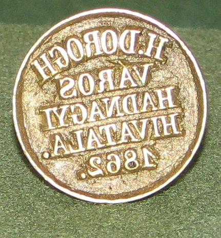 The seal says: Office of the Lieutenant of the Town of H.Dorogh. 1862. This historical seal was used by the lieutenant (e.g. the mayor) of Hajdúdorog, Hungary. Today it can be seen in the local historical museum.